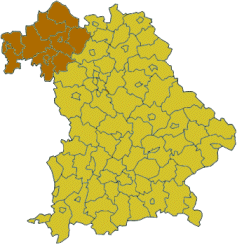 Map of Bavaria highlighting the Unterfranken region. Based on the templates at Wikipedia:WikiProject German districts/Maptemplates